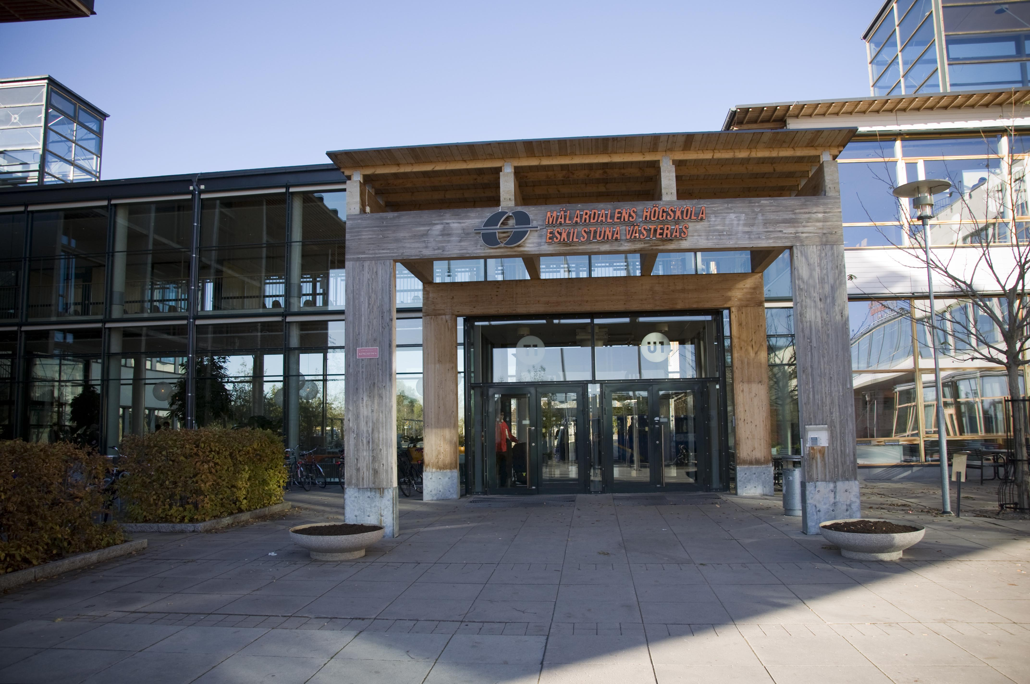 University of Mälardalens main entrence Västerås